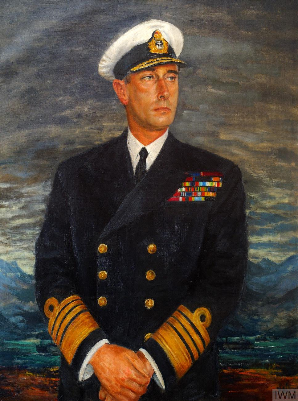 Portrait of Lord Louis Mountbatten (1900-1979) in naval uniform